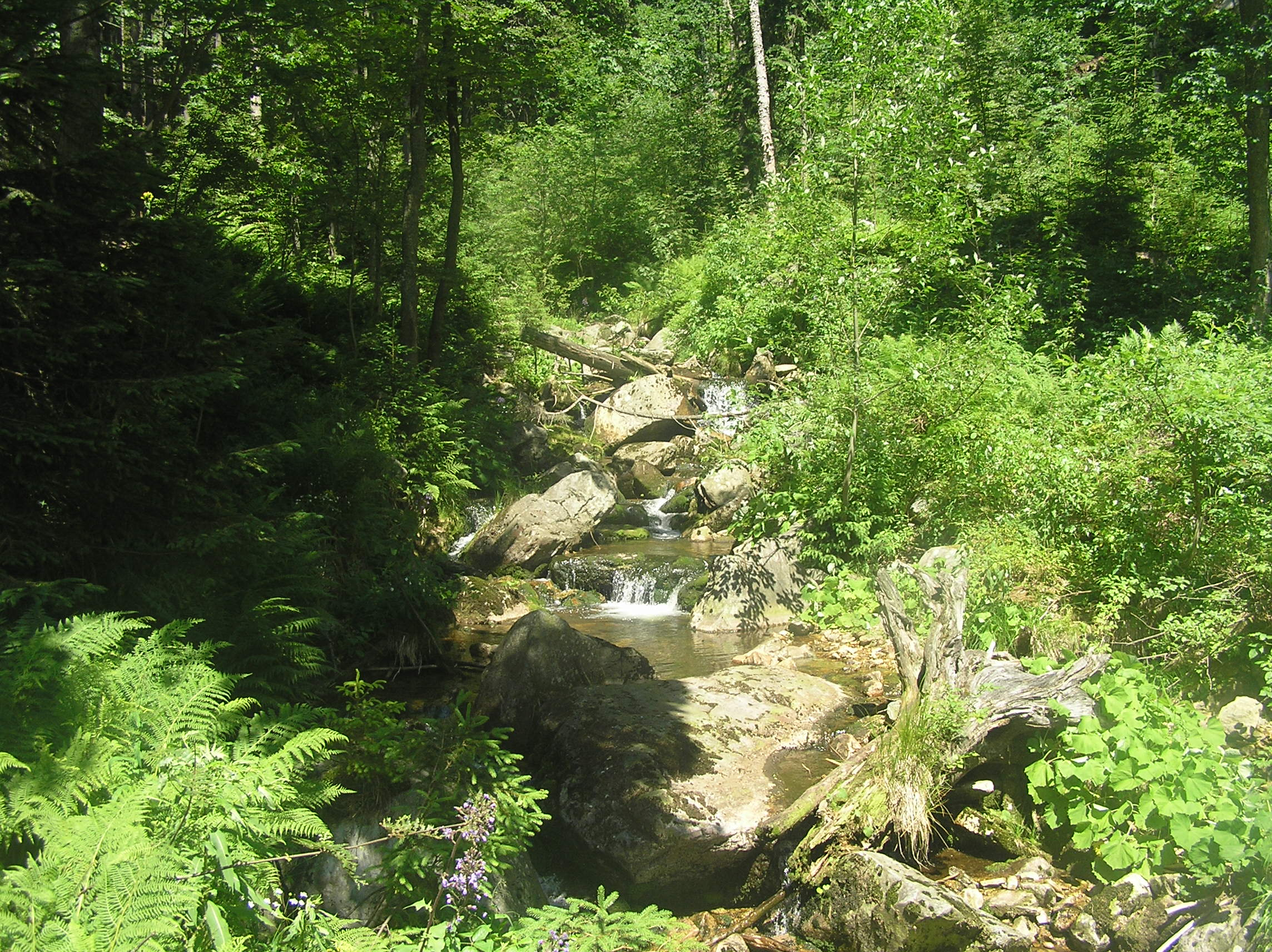 Prudký potok, Králický Sněžník Mountains, Czech Republic